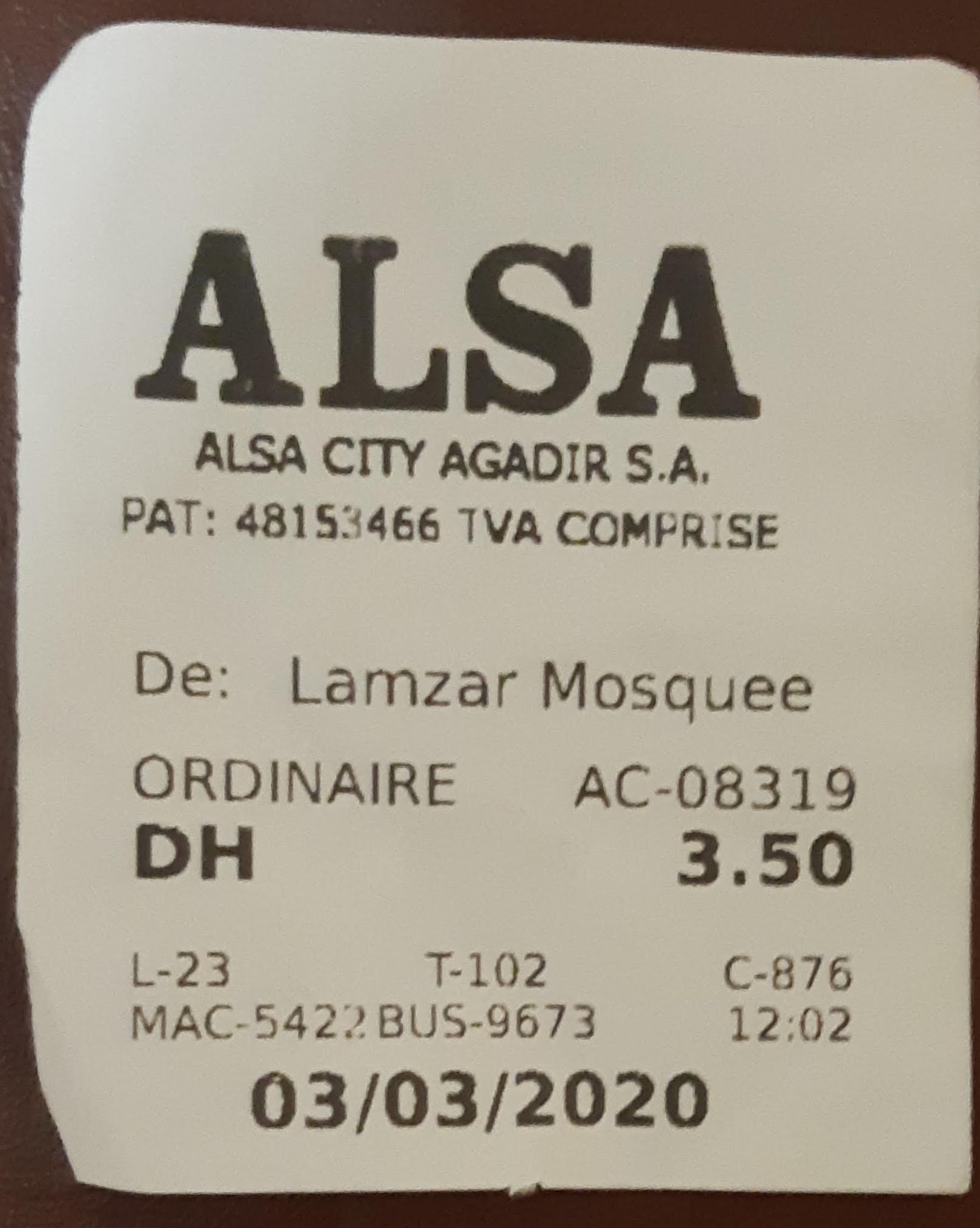 Alsa bus ticket Agadir 2020 This is an image with the theme "Africa on the Move or Transport" from: Morocco